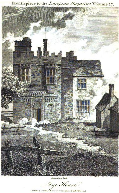 Rye House, Hertfordshire, frontispiece from the European Magazine, January 1805.